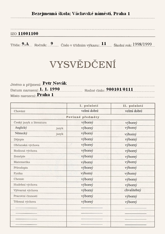 Example of report card from elementary school; personal information was made up